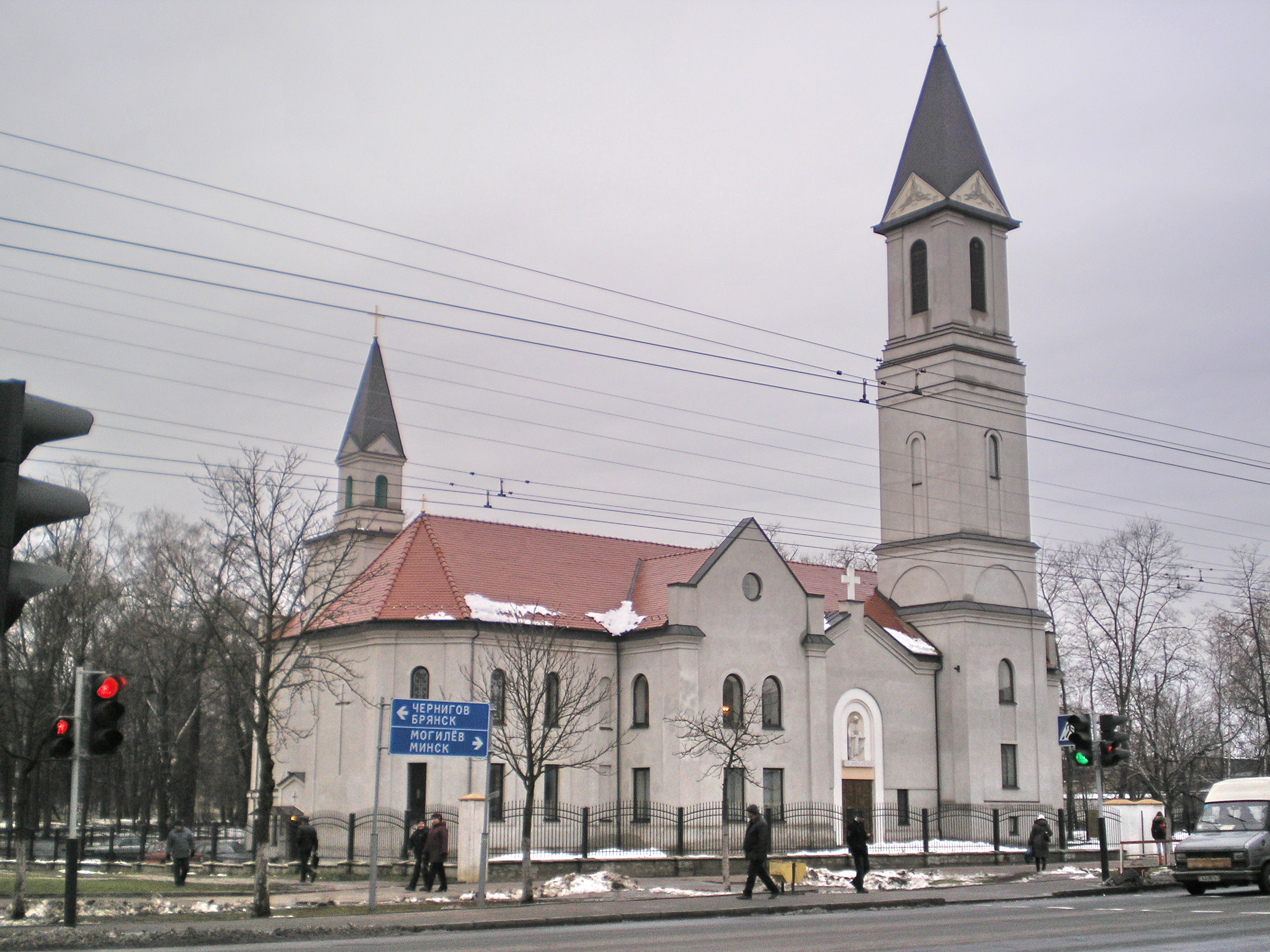 Catholic Church of Nativity of Virgin Mary, Homel